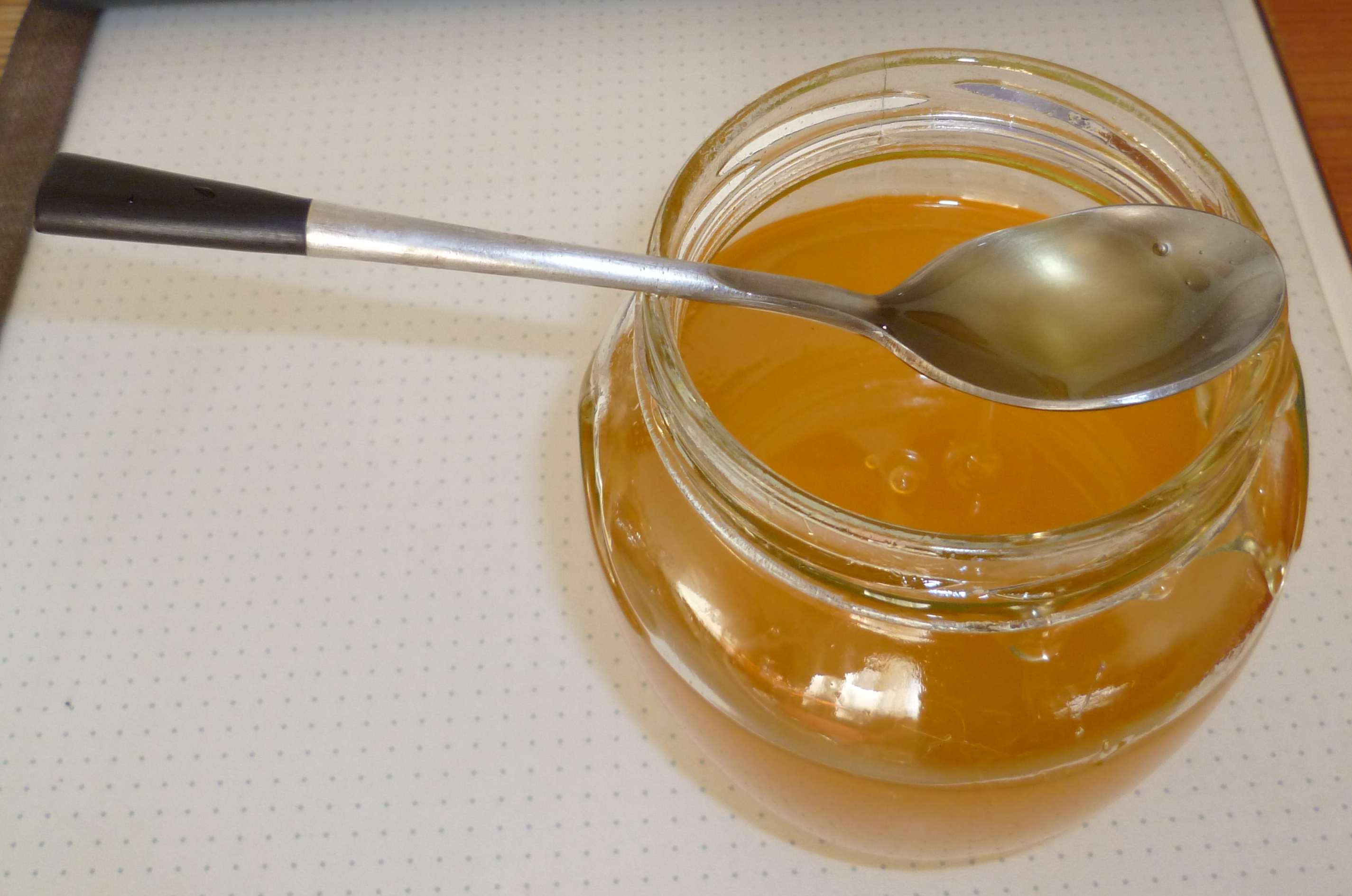 Jar of honey